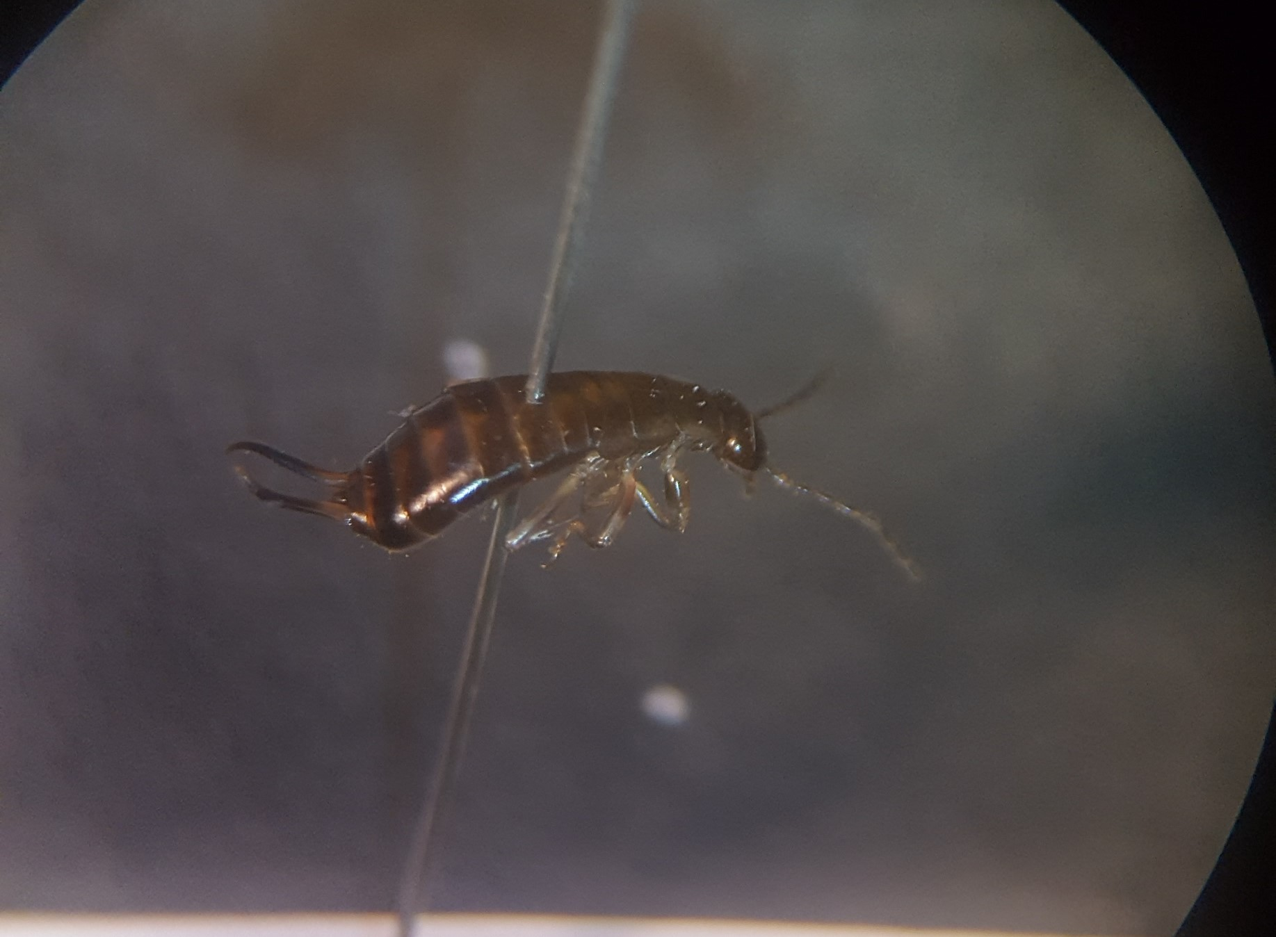 A microscopic view of little earwig, a member of Labiinae subfamily